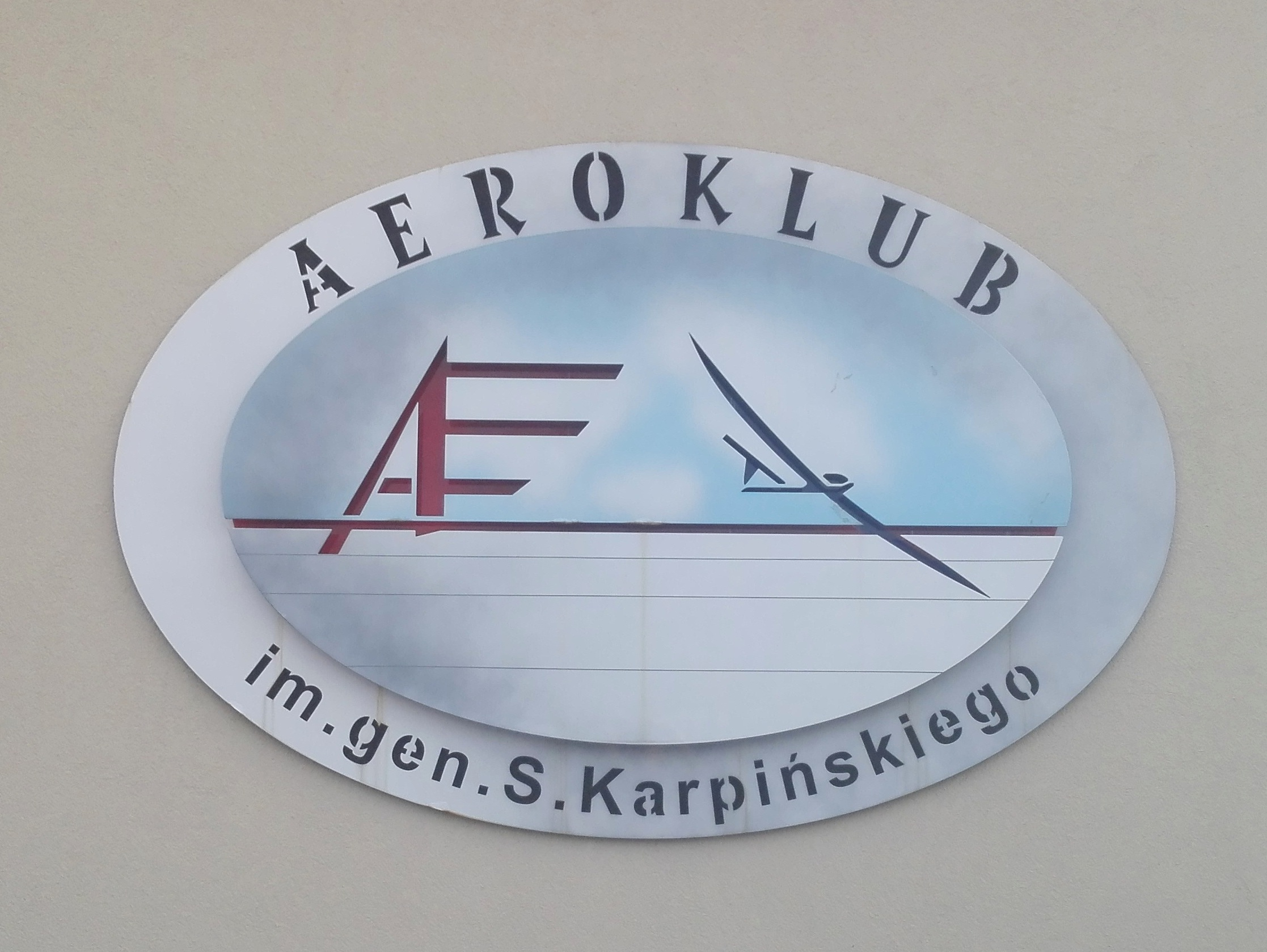 Sports airfield near Piotrków Trybunalski.